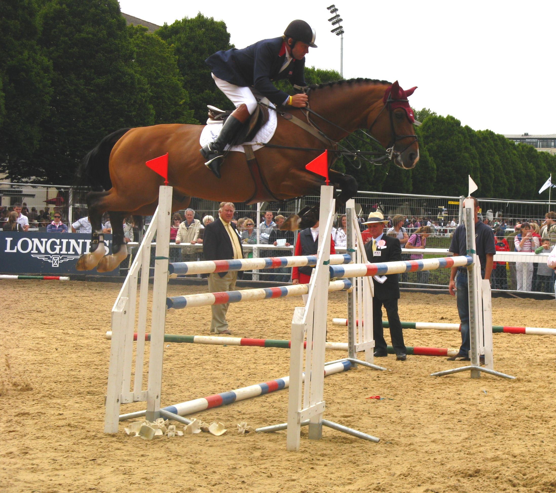 Nick Skelton & Arko III - Dublin CSIO5* - Samsung Aga Khan Nations Cup, Ireland